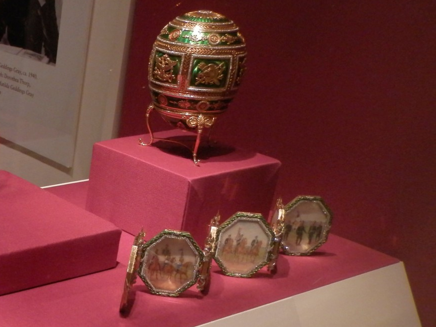 Danish Palaces, Caucasus and Napoleonic: Fabergé eggs at Metropolitan Museum